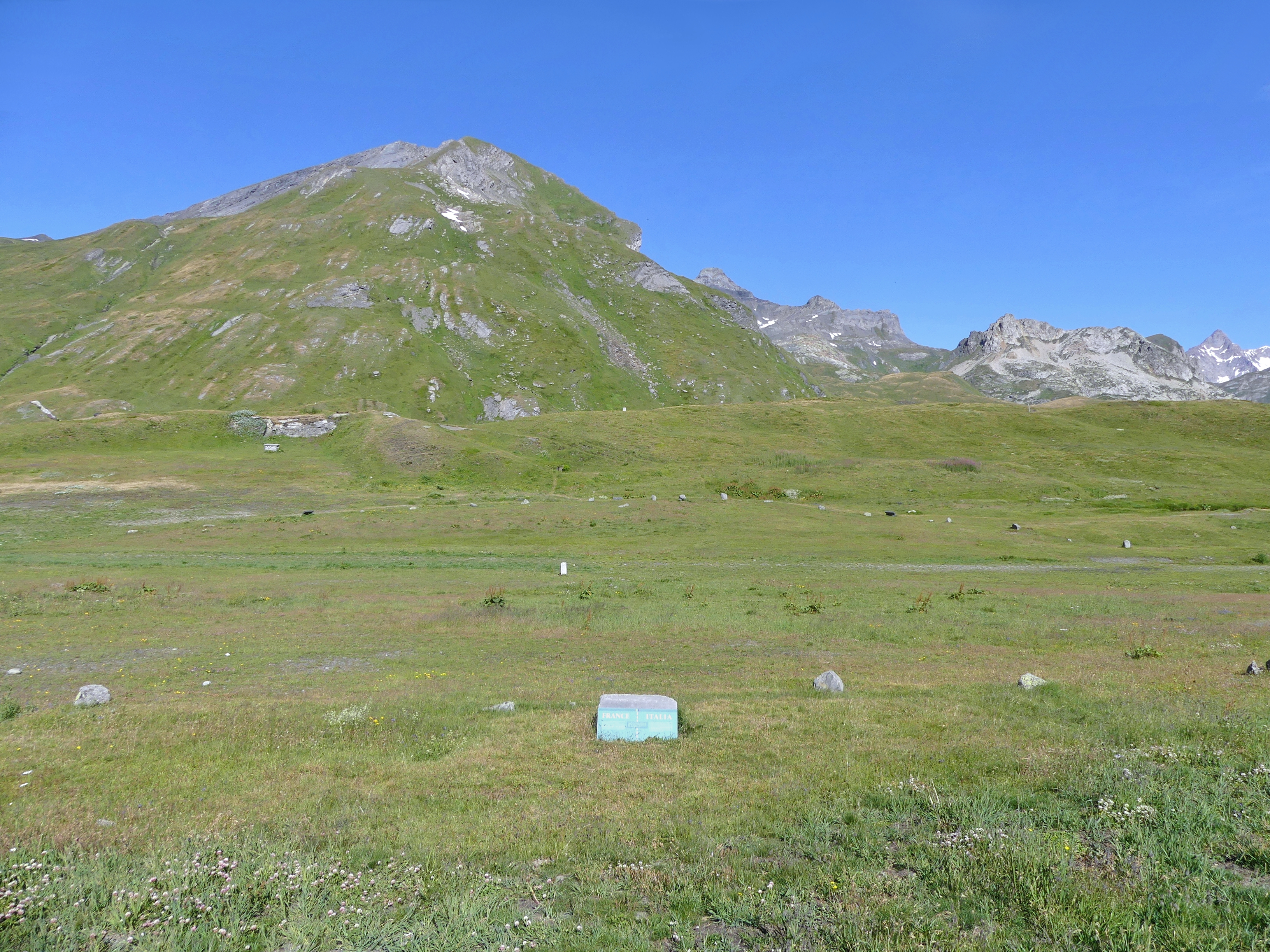 Sight of the stone circle of Séez (also called cromlech), at the Petit-Saint-Bernard pass (2,188 meters high) and whose center is crossed by the border between France (left) and Italy (right).